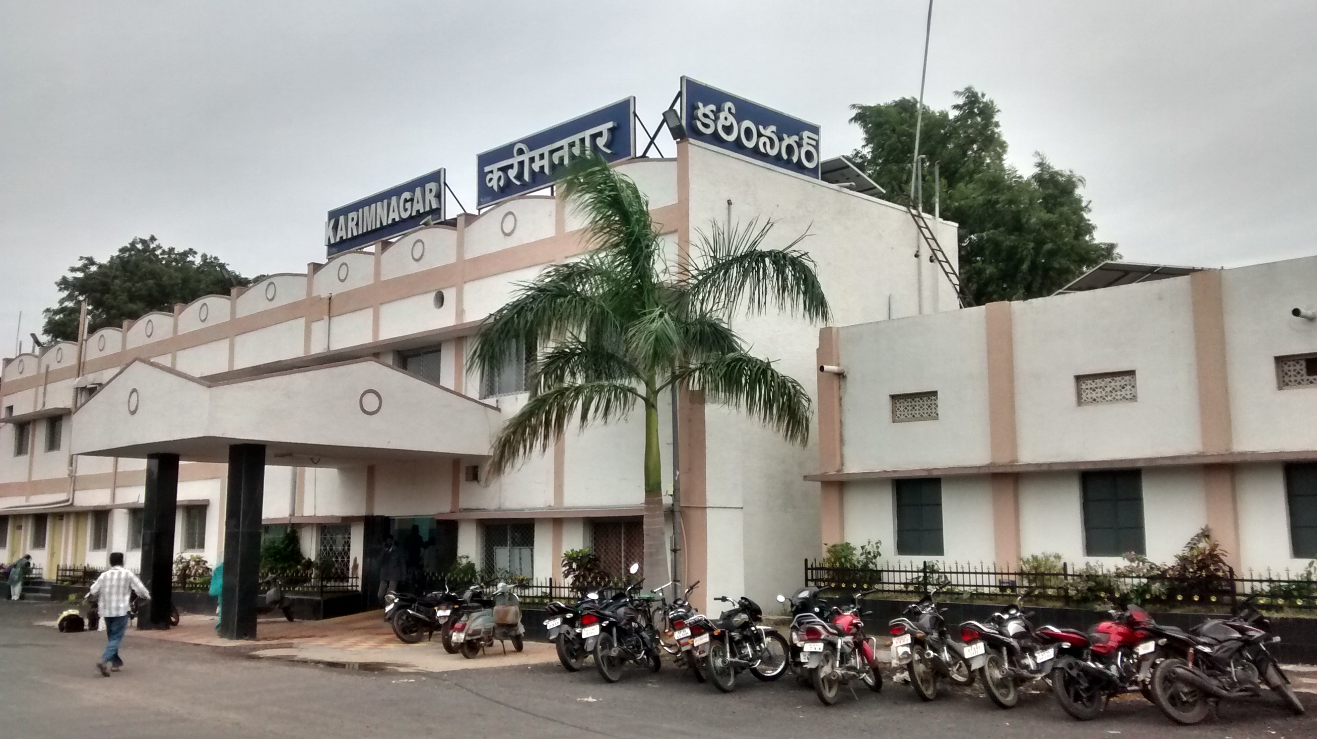 side view